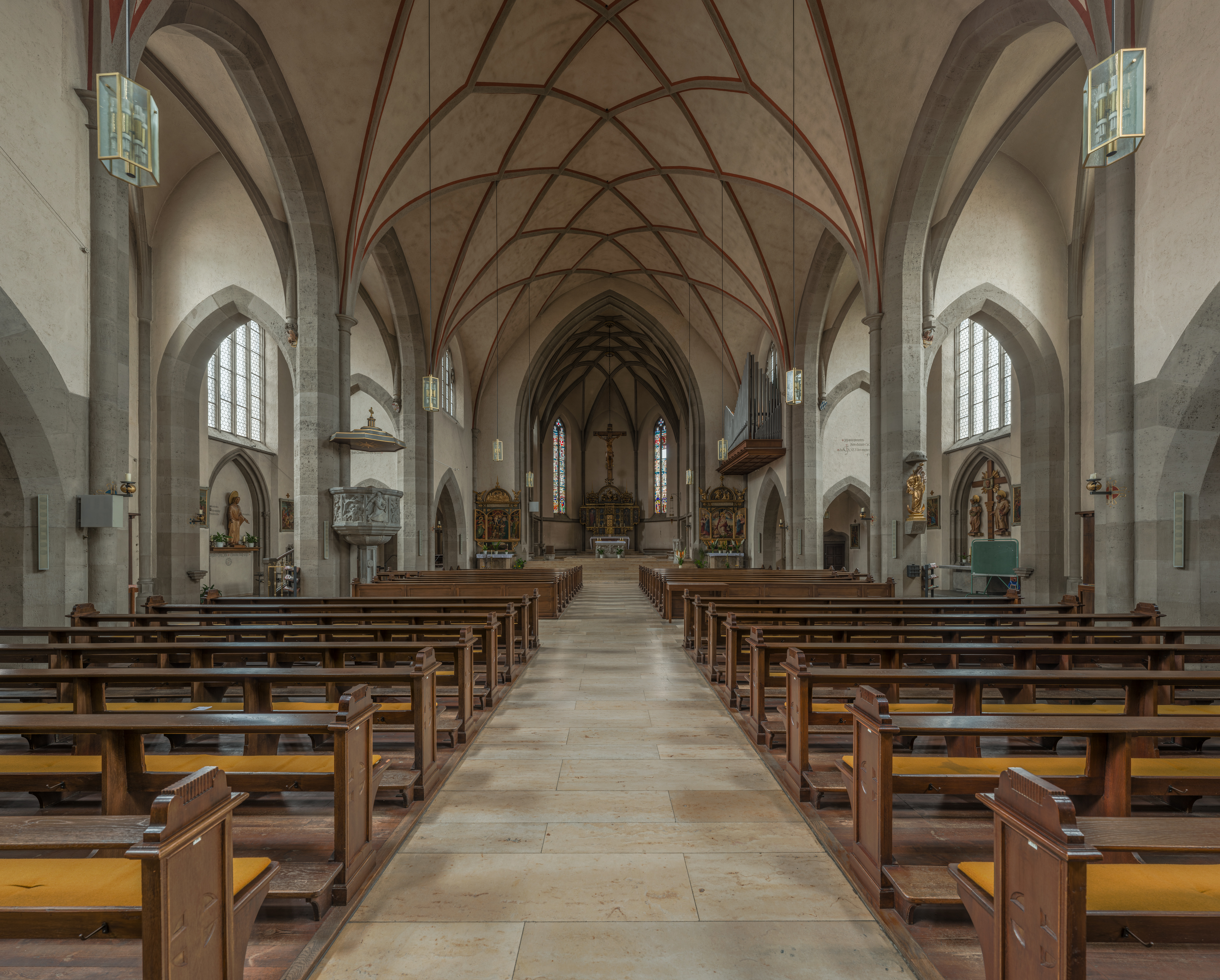 The nave of St. Josef der Bräutigam, Würzburg-GrombühlThis is a photograph of an architectural monument.